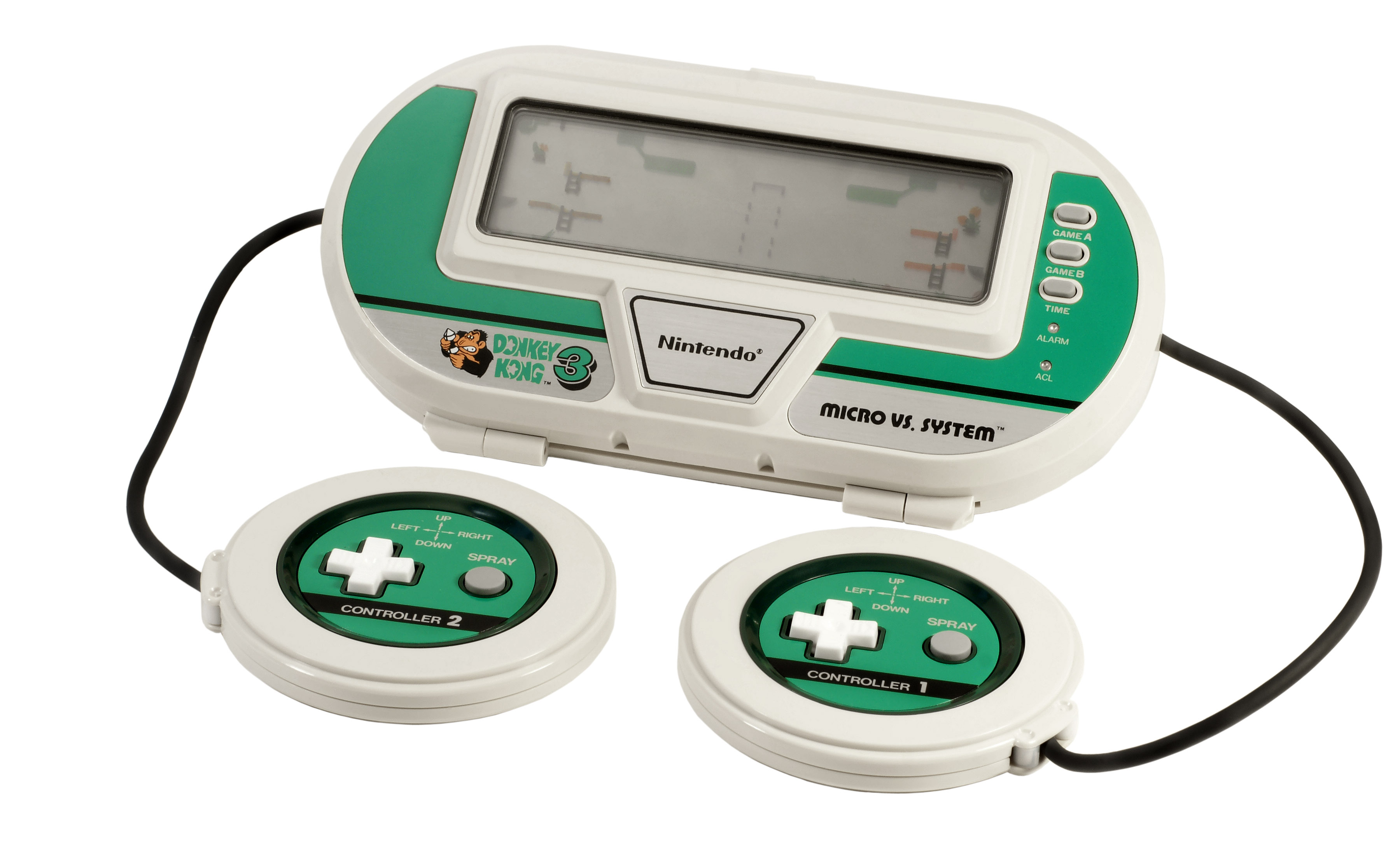 A Nintendo Game & Watch (Micro Vs System), this is Donkey Kong 3.